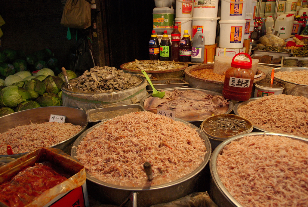 Various jeotgal (salted fermented seafood in Korean cuisine) being sold at Gyeongdong Market in Seoul, South Korea